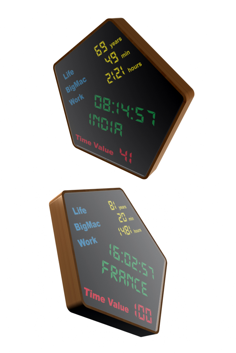 Sketch